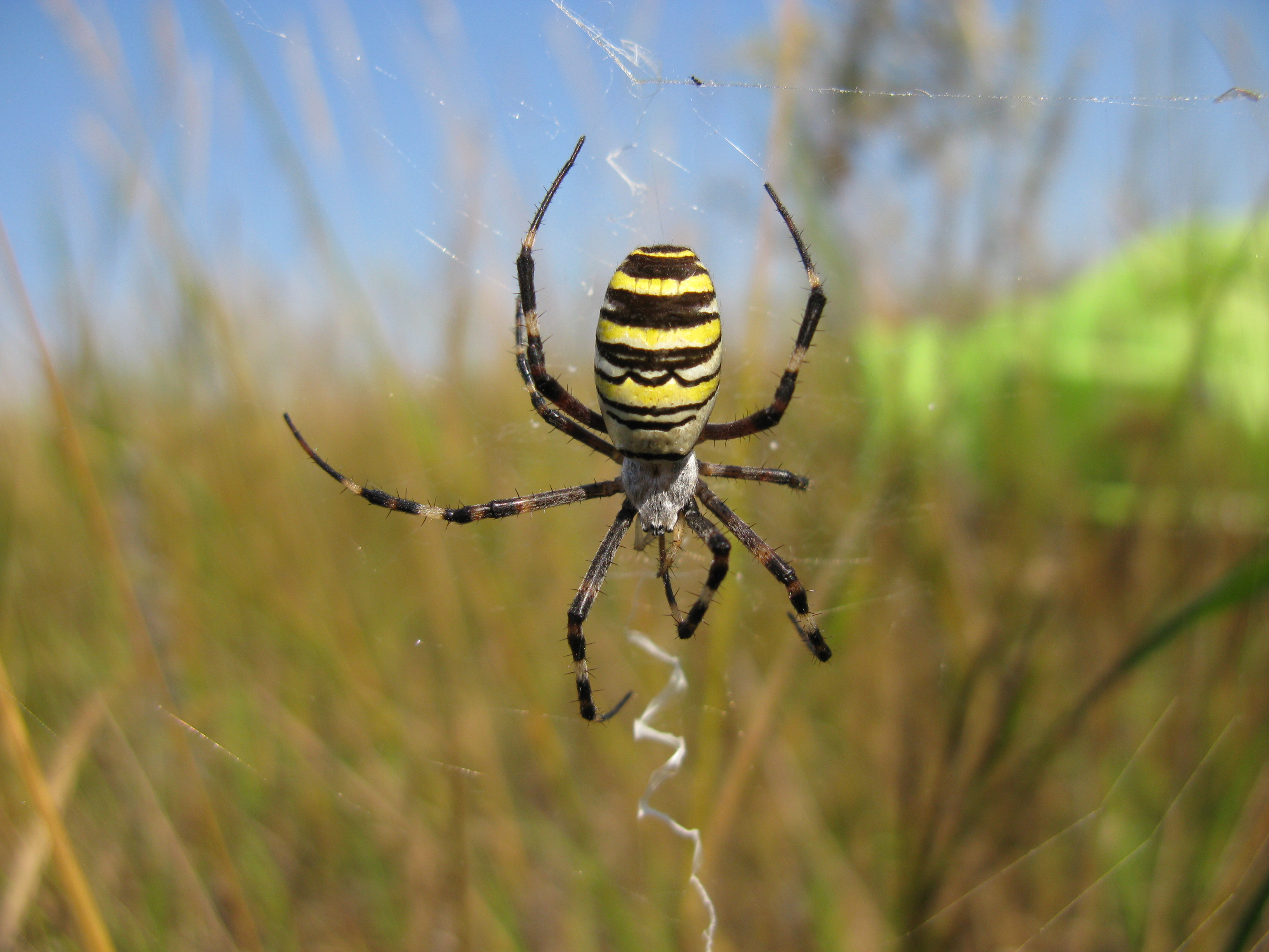 Argiope bruennichi